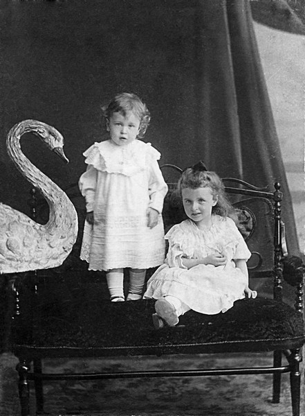 Dmitry and Elena Kabalevsky. Luhansk, 1906.